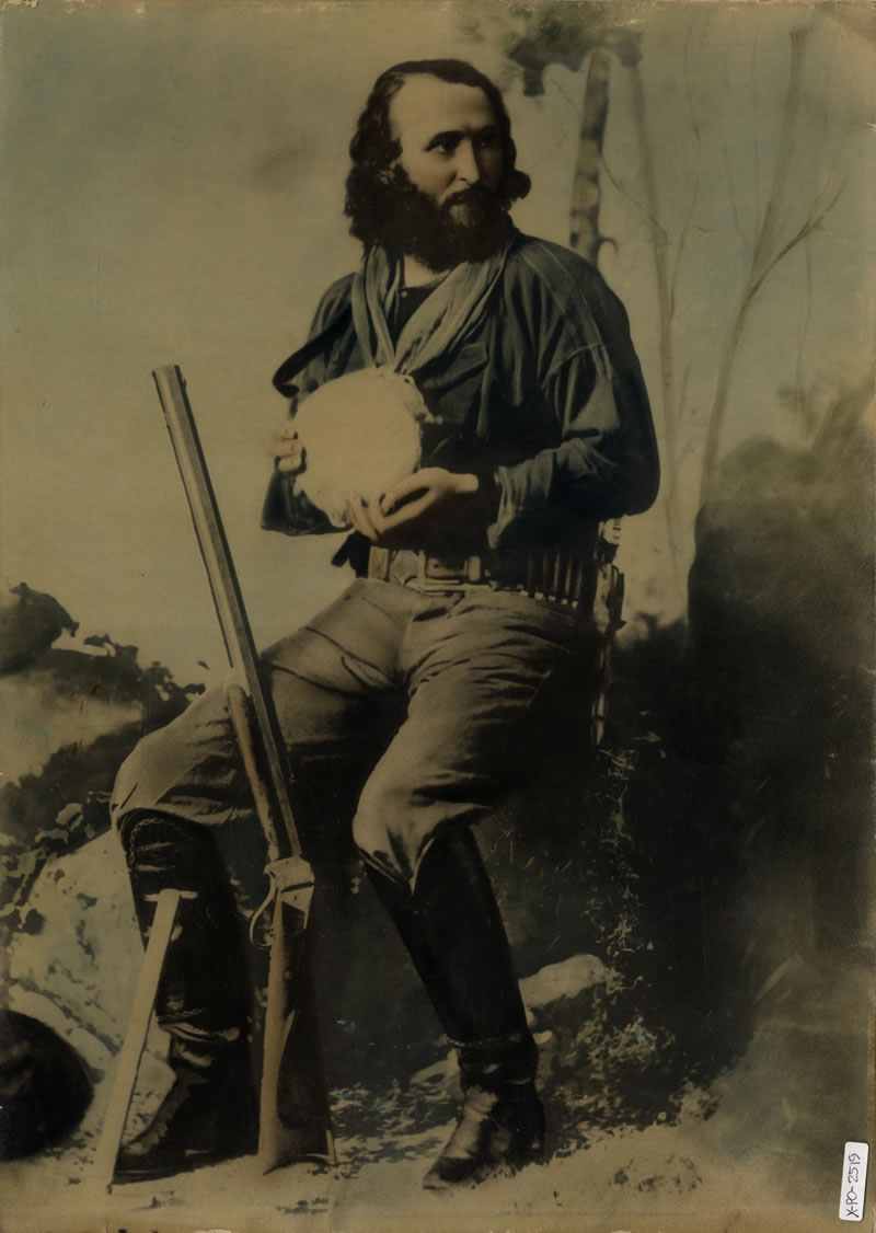 Portrait of prospector Edward Schieffelin c.1880, founder of Tombstone, Arizona.